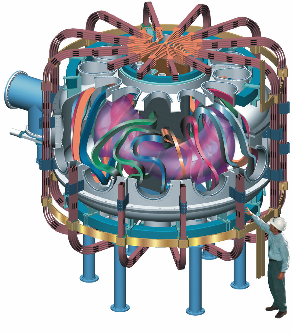 Cutaway view of the Quasi-Poloidal Stellarator (QPS) stellarator. The Quasi Poloidal Stellarator was designed with the help of a computer optimization model that used an extensive suite of physics design tools. The QPS was expected to be built by 2008. (2003-07-08). "Design of the quasi-poloidal stellarator experiment (QPS)". Fusion Engineering and Design 66-68: 205–210. ISSN 09203796.